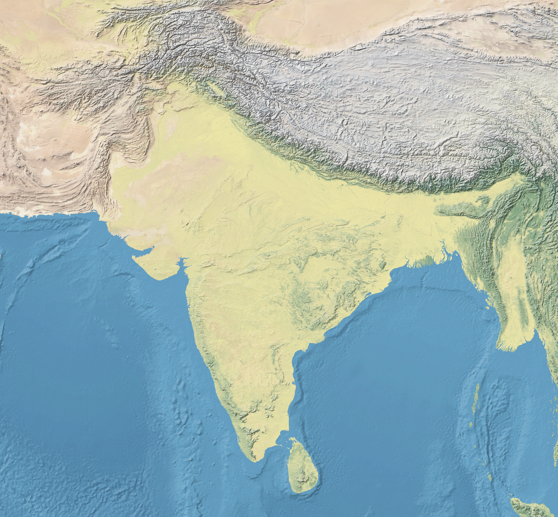 South Asia non political